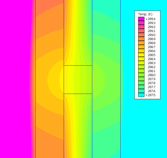 Thermal bridge. Configuration has two walls made of concrete, with a concrete bridge. Air is the insulator. The "inside" of the building (purple) is heated to 303K (around +30 C) and the "ouside" (light blue) is at 297K (around 0 C). The thermal bridge (also made of concrete) causes the heat to be transferred more effectively - the outer wall is warmer, and the inner wall is cooler, respectively. Modelled with FEMM 4.2.